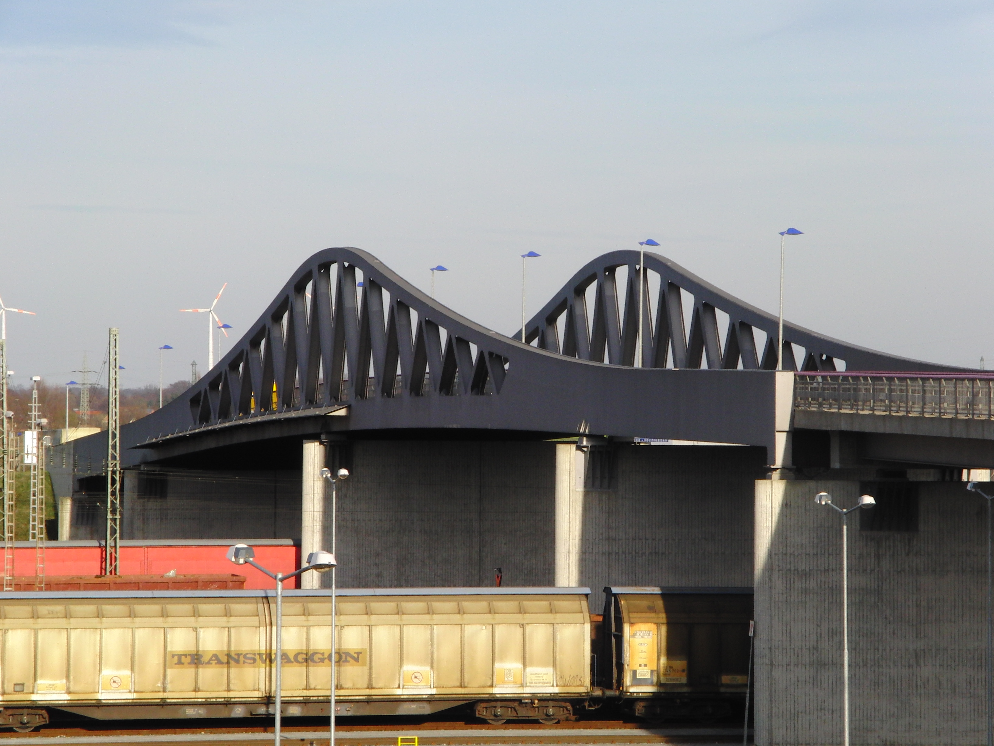 Stahlwerkbrücke in Peine, seen from South